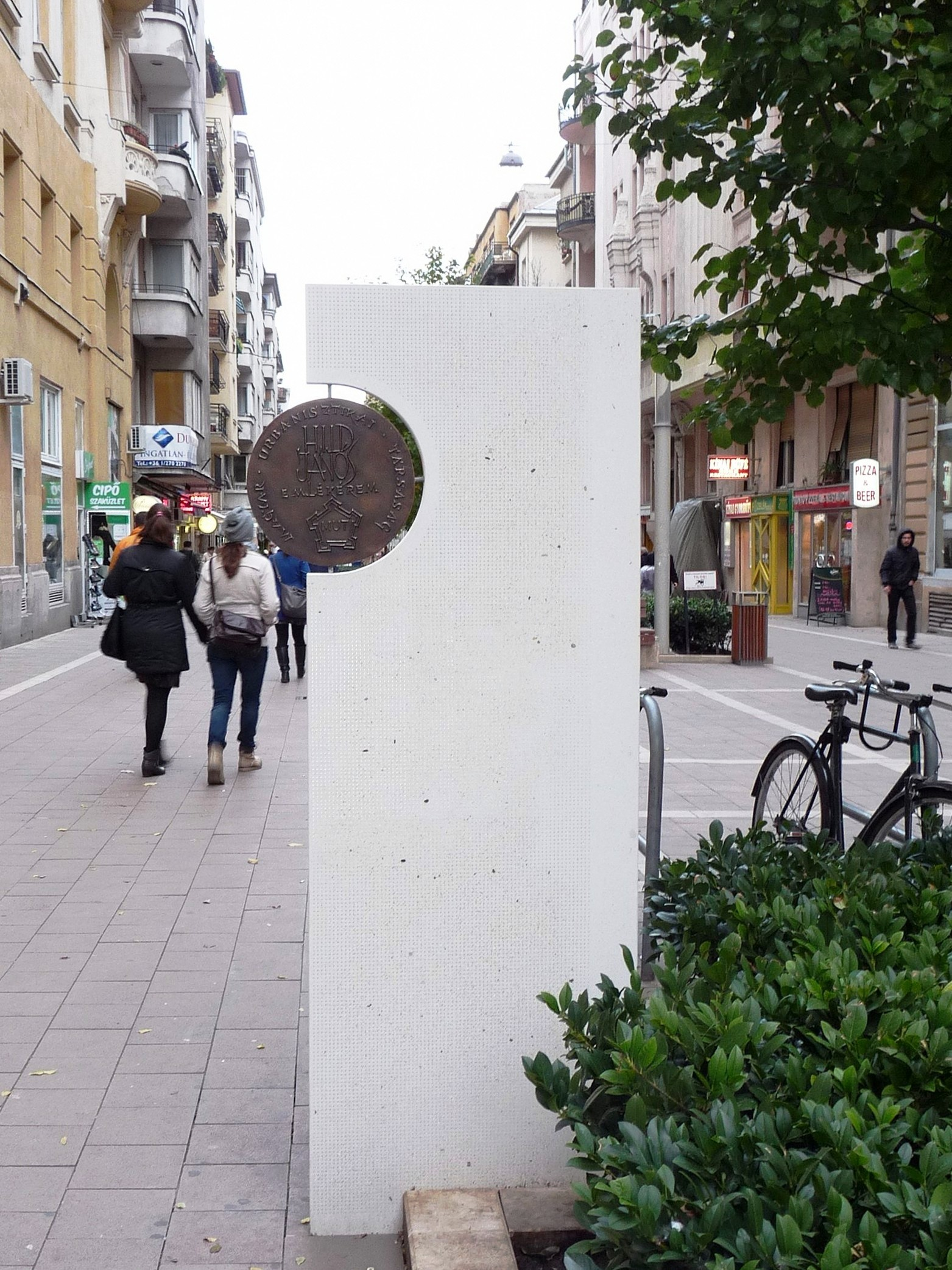 Memorial wall for the Hild János Award of Budapest District XIII obtained in 2012. (Budapest, District XIII, Hollán Ernő Street)